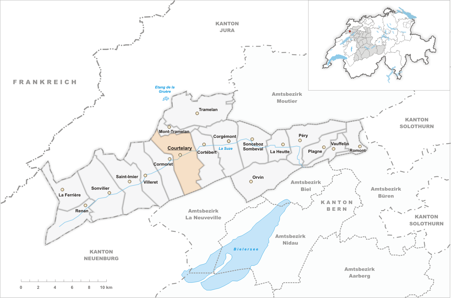 Municipality Courtelary